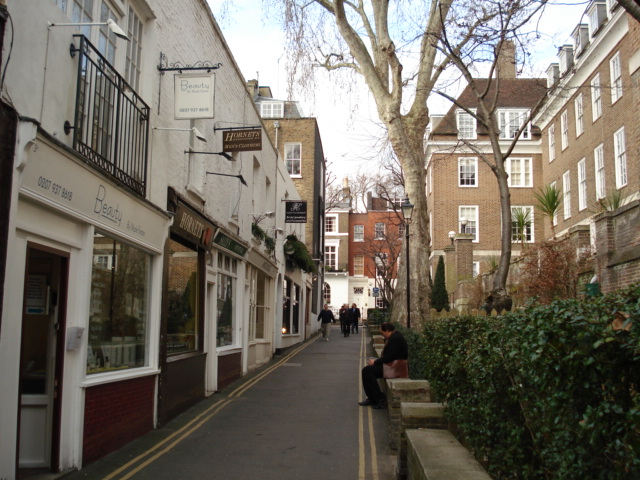 Church Walk, Kensington, London